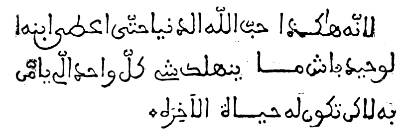 Sample of Moroccan Colloquial Arabic from The Gospel in Many Tongues (1921), page 5. John 3:16